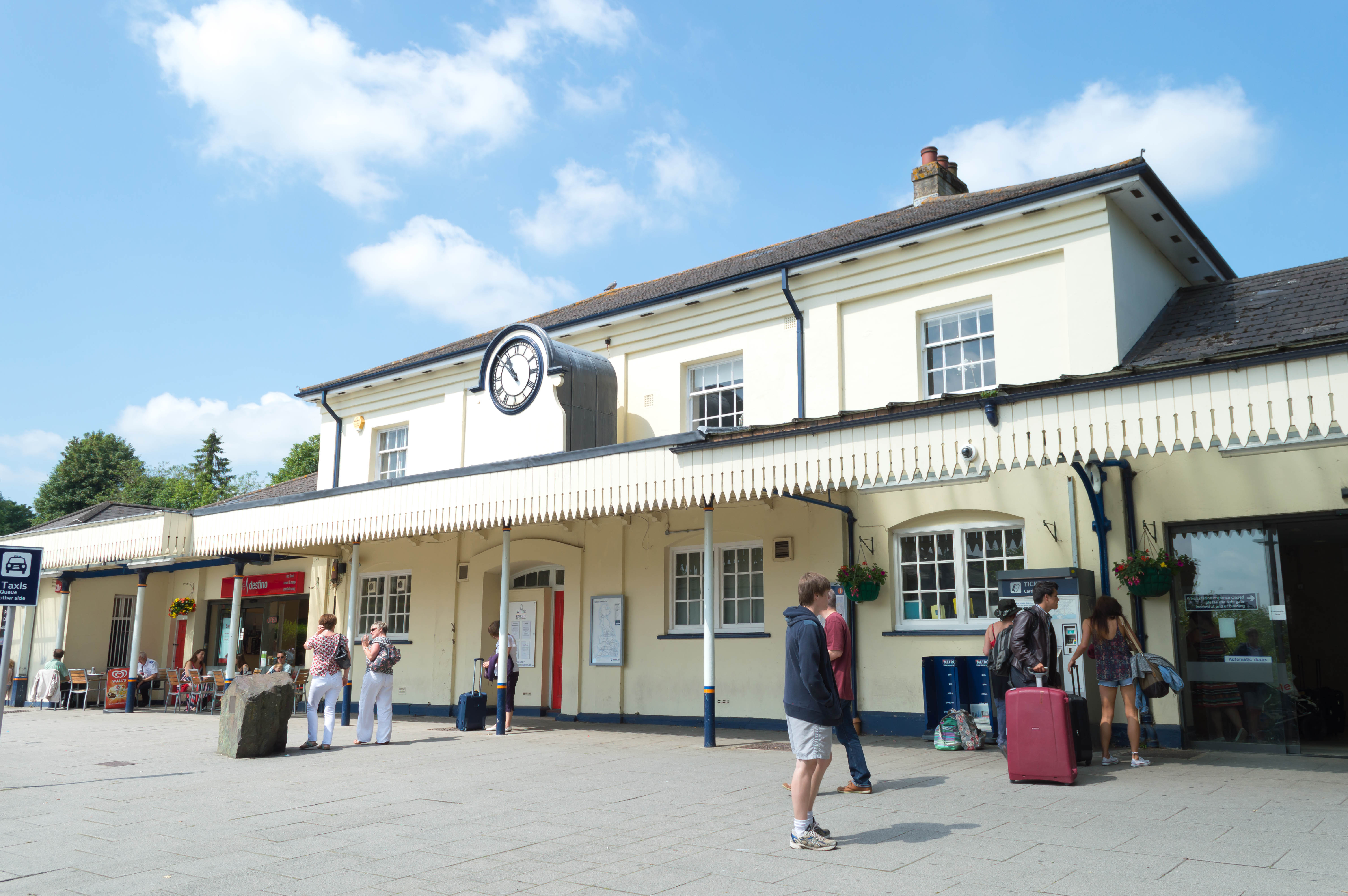 The busy station in Winchester, seen in June 2014. Over 4 million people pass through every year.